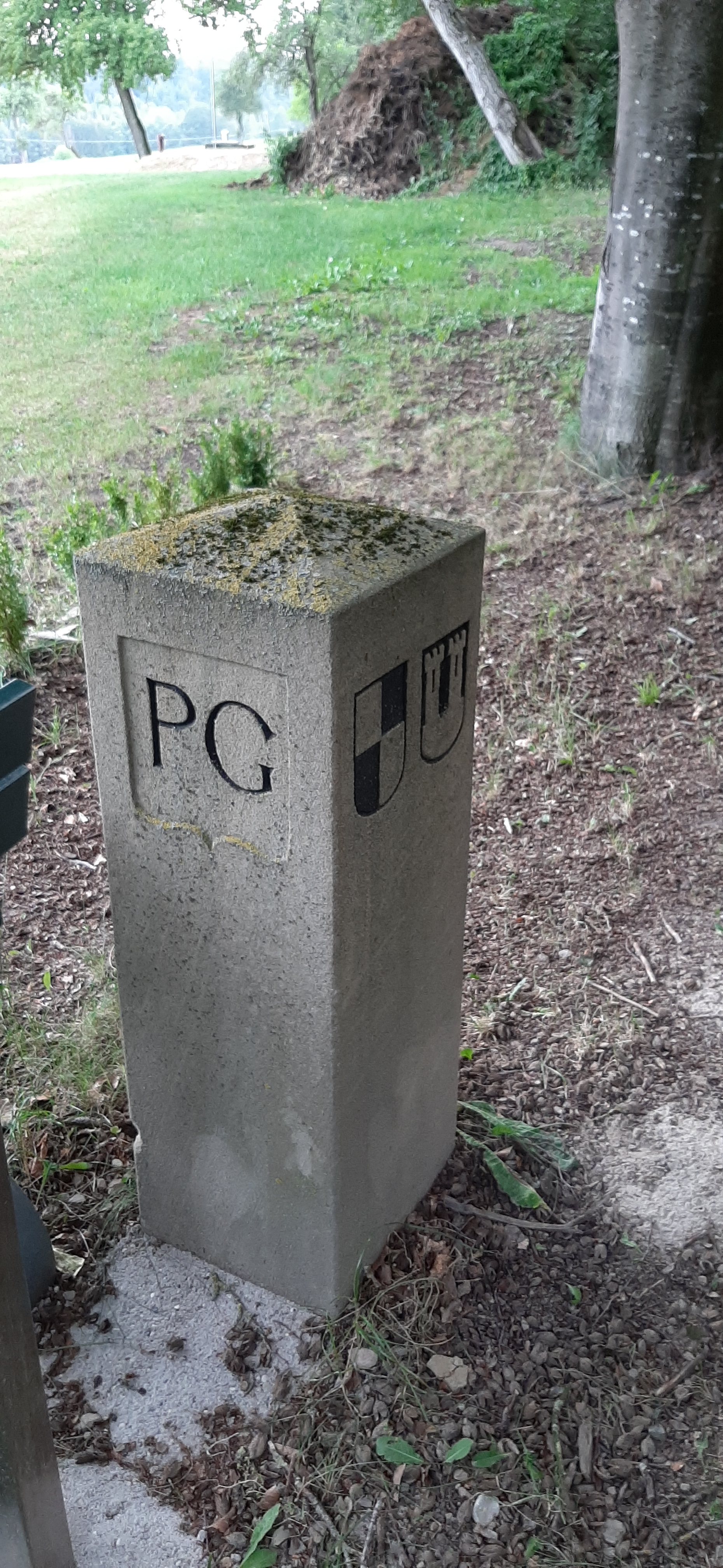 1804 Boundary Stone between Prussia, Hohenlohe and Rothenburg ob der Tauber, now next to the village of Speierhof, municipality of Gebsattel, district of Ansbach, Bavaria, Germany